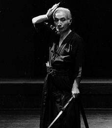 Photograph of headmaster Saito Satoshi performing a classical pose of the Negishi-ryu.